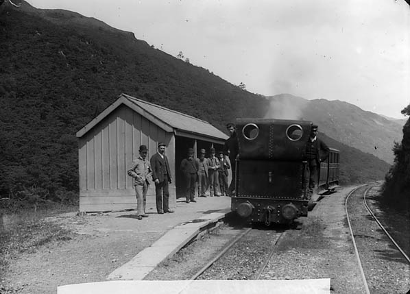 1 negative : glass, dry plate, b&w ; 12 x 16.5 cm.